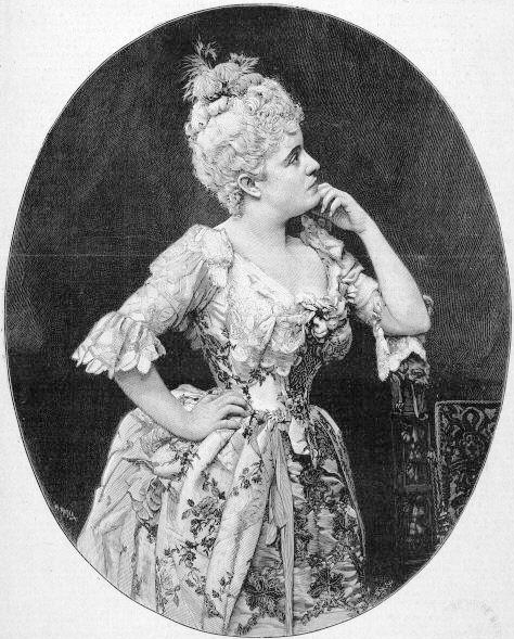 American soprano Sibyl Sanderson (1865-1903) as Manon Lescaut in Massenet's Manon. Engraving by Narcisse Navellier after a drawing by Henri Meyer (1844-1899) after a photograph by Wilhelm Benque (1843-1903).